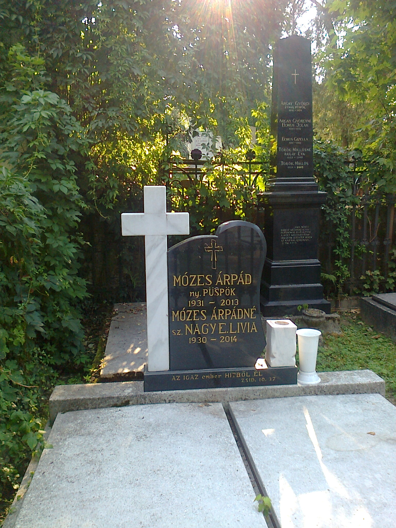 Thomb of bishop Árpád Mózes in Házsongárd Cemetery